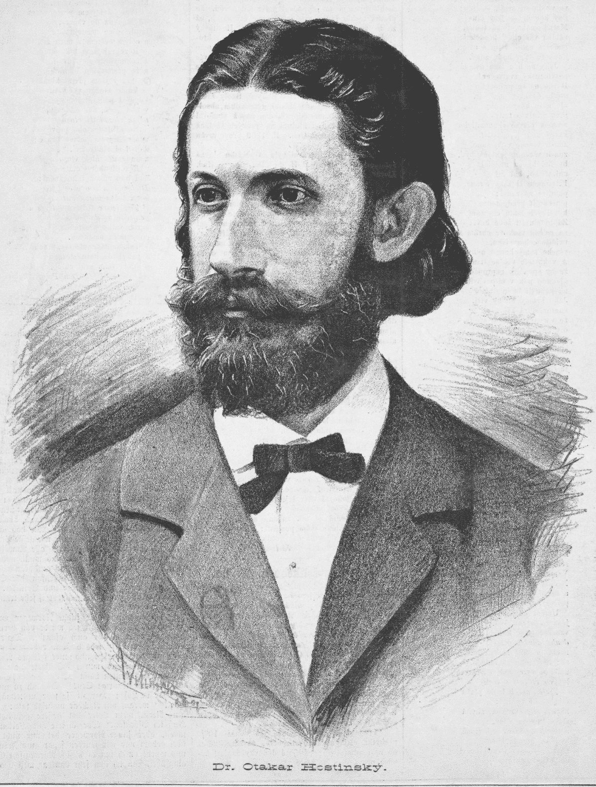 Portrait of Otakar Hostinský, Czech writer and literary critic.